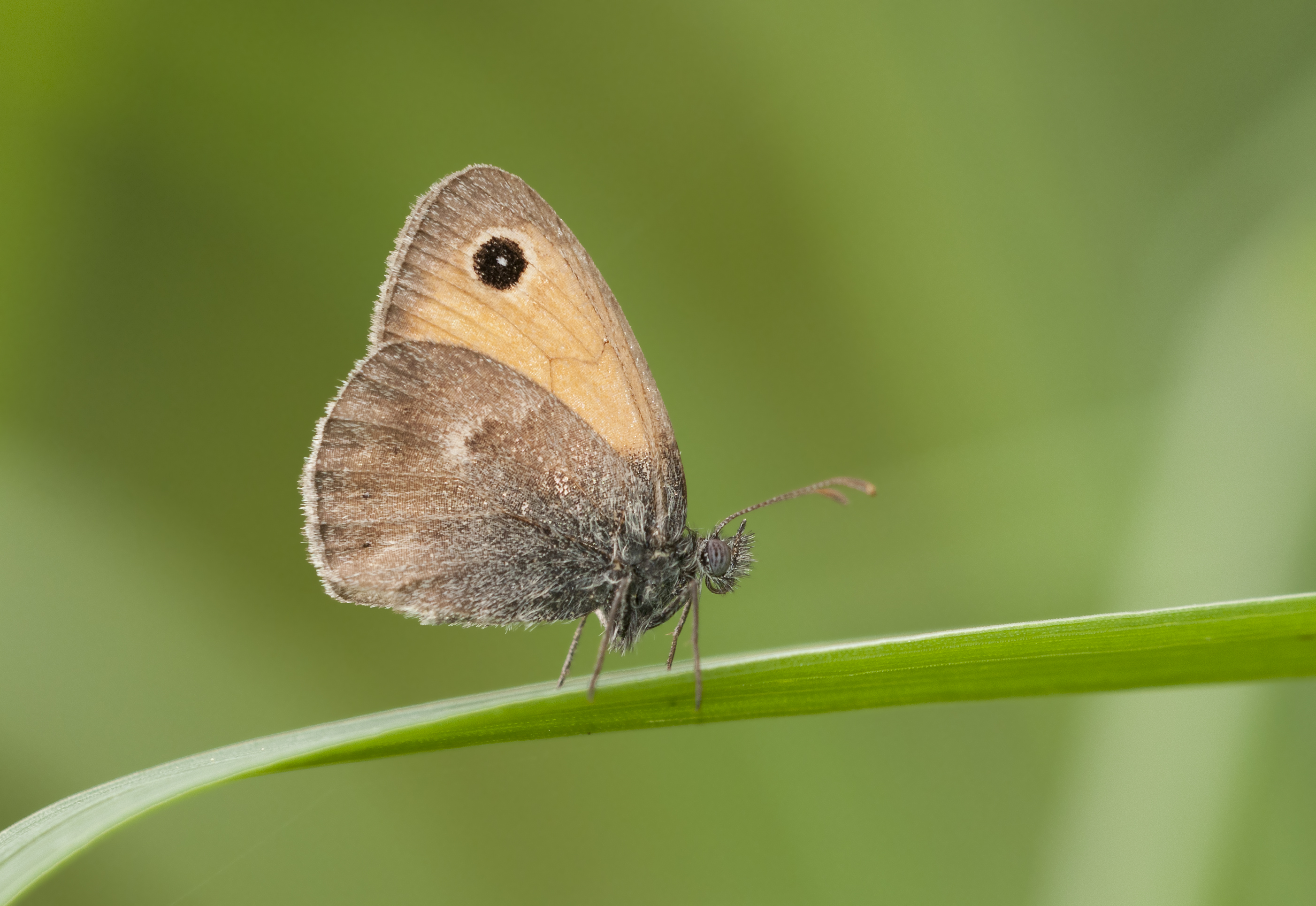 Butterfly Small Heath (Coenonympha pamphilus). Espiye Giresun - Turkey. 395 mTürkçe: Küçük zıpzıp perisi (Coenonympha pamphilus) kelebeği. Espiye Giresun - Türkiye. 395 m